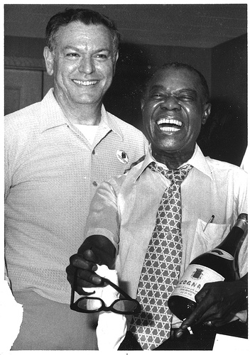 Floyd Levin & Louis_Armstrong in 1970